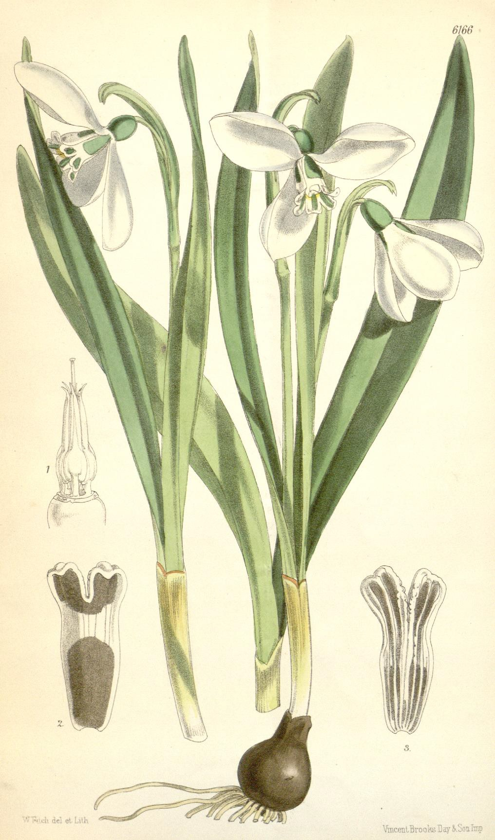 Illustration of Galanthus elwesii by JD Hooker in Curtis Botanical Magazine 1875. Plate 6166